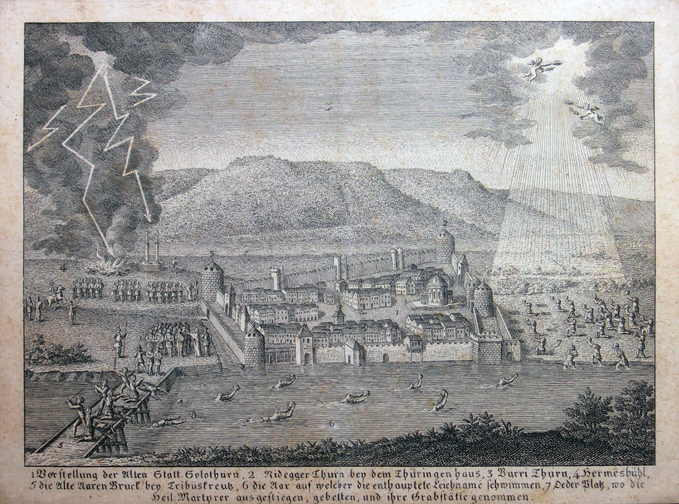 The martyrdom of Saint Ursus and Saint Victor in Solothurn, copper engraving, 18th century.